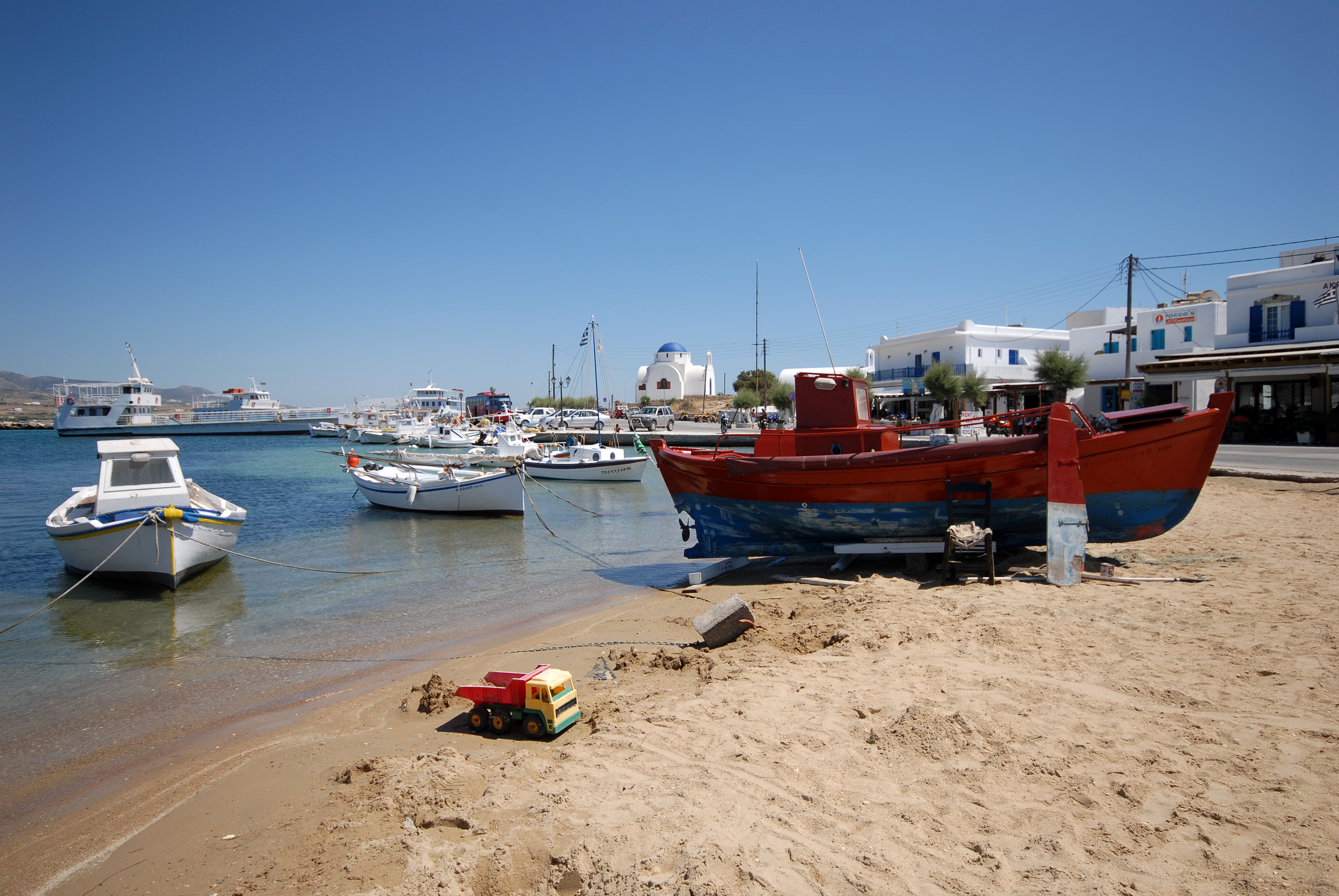 Greece Antiparos fishing port